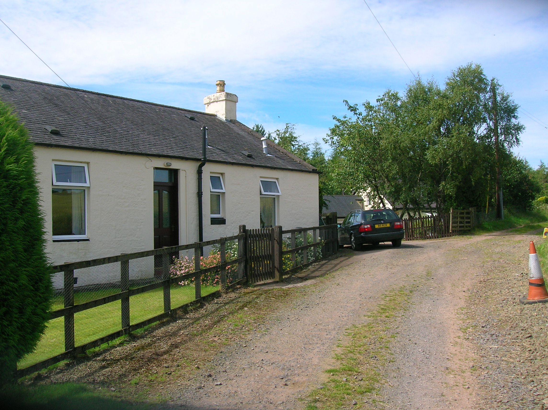 Carronbridge railway station buildings, Dunscore, Dumfries & Galloway, Scotland